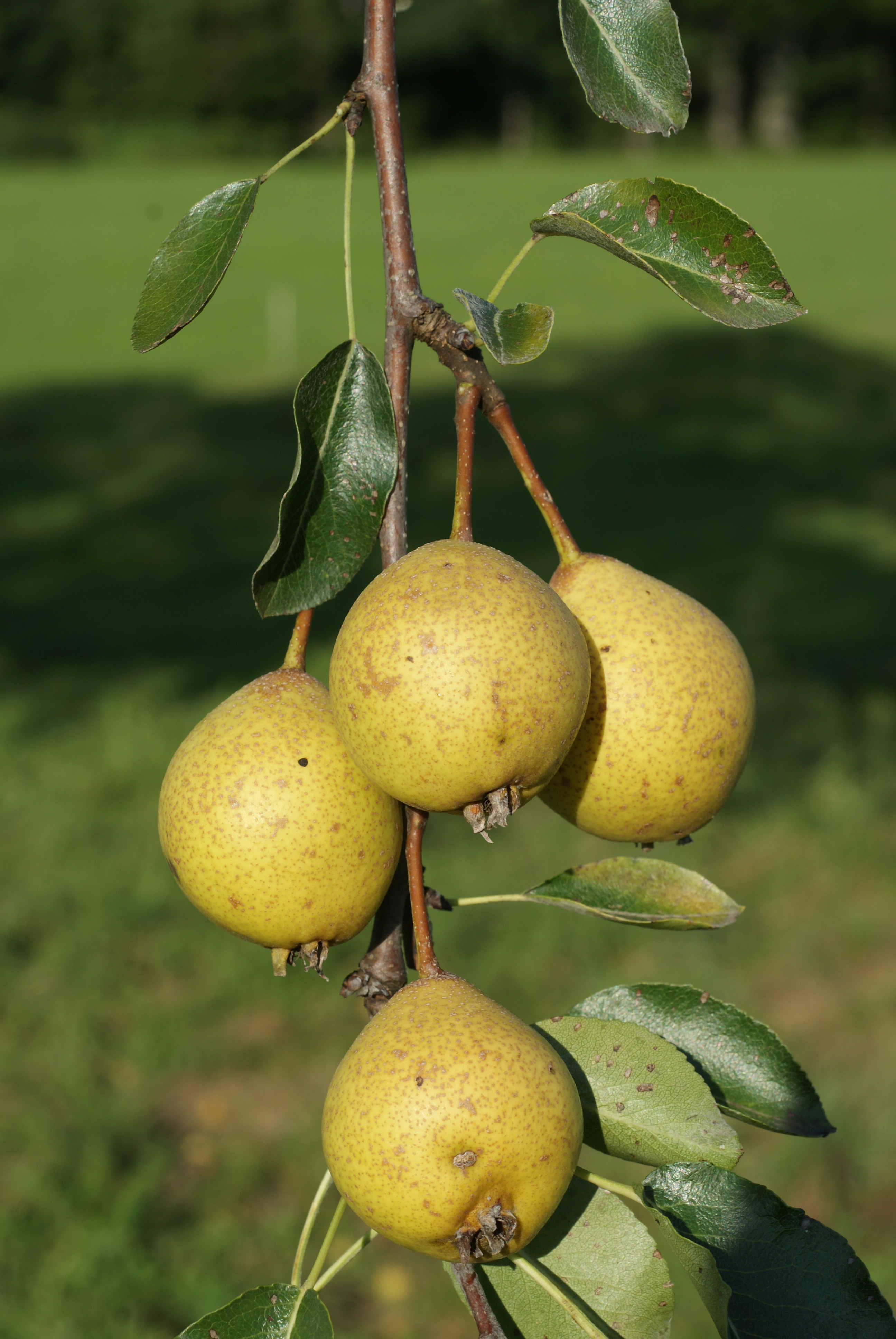 Fruit of the Swiss pear variety "Theilersbirne".